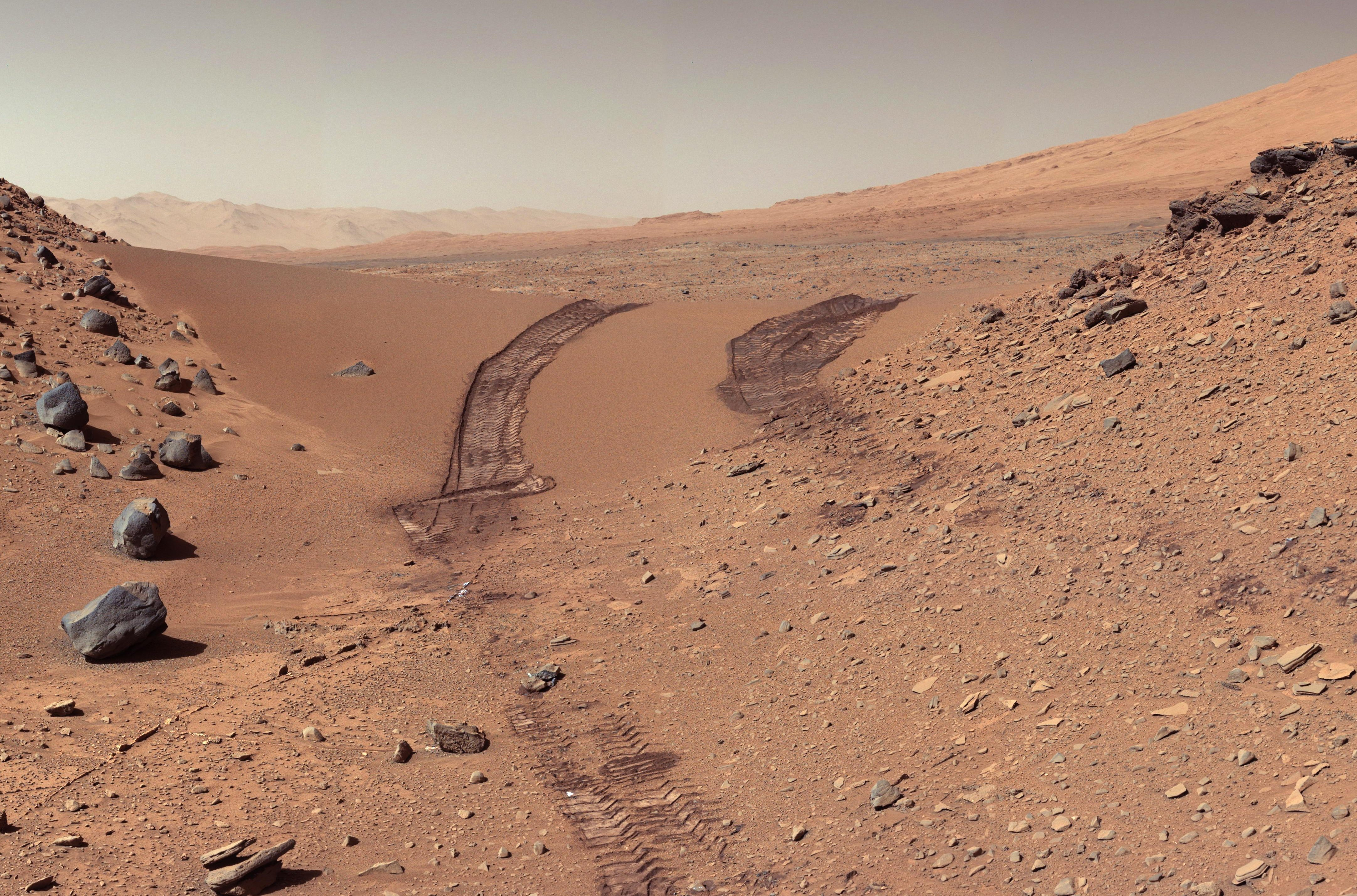 PIA17944: Curiosity's Color View of Martian Dune After Crossing It This look back at a dune that NASA's Curiosity Mars rover drove across was taken by the rover's Mast Camera (Mastcam) during the 538th Martian day, or sol, of Curiosity's work on Mars (Feb. 9, 2014). The rover had driven over the dune three days earlier. For scale, the distance between the parallel wheel tracks is about 9 feet (2.7 meters). The dune is about 3 feet (1 meter) tall in the middle of its span across an opening called "Dingo Gap." This view is looking eastward. The image has been white balanced to show what the Martian surface materials would look like if under the light of Earth's sky. A version with raw color, as recorded by the camera under Martian lighting conditions, is available as Figure 1. NASA's Jet Propulsion Laboratory, a division of the California Institute of Technology, Pasadena, manages the Mars Science Laboratory Project for NASA's Science Mission Directorate, Washington. JPL designed and built the project's Curiosity rover. Malin Space Science Systems, San Diego, built and operates the rover's Mastcam. More information about Curiosity is online at and Image Credit: NASA/JPL-Caltech/MSSS